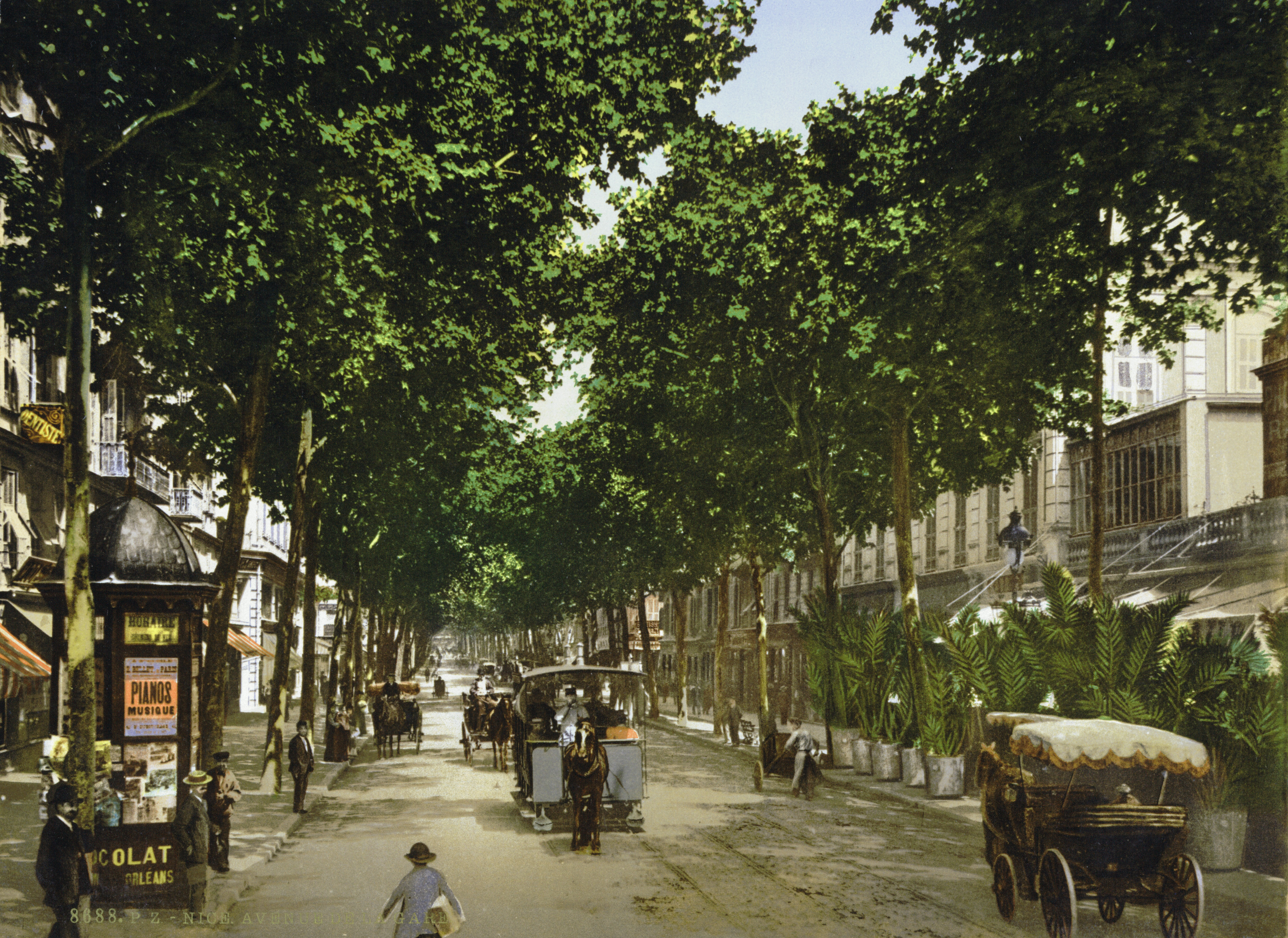 Avenue de la Gare, Nice. Print no. "8688"